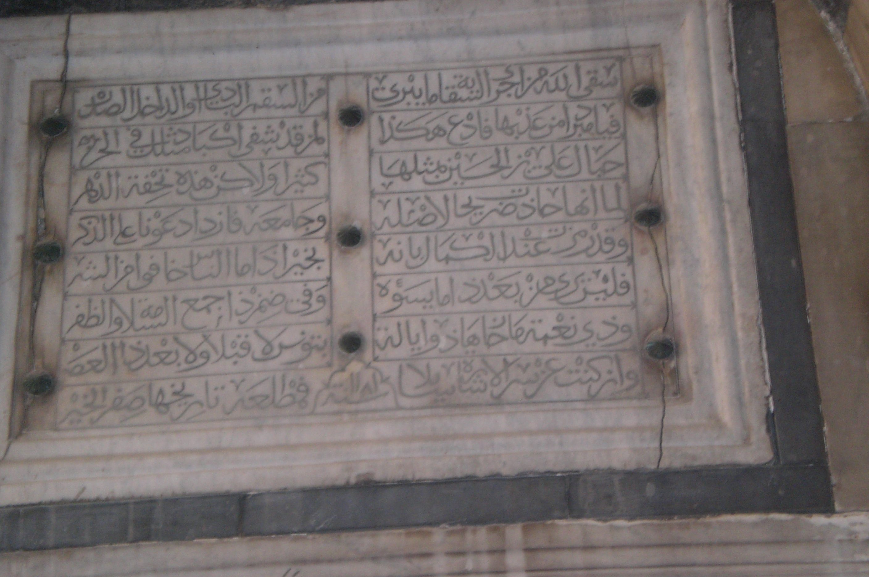 The cinscription of Jama Jedid Medersa